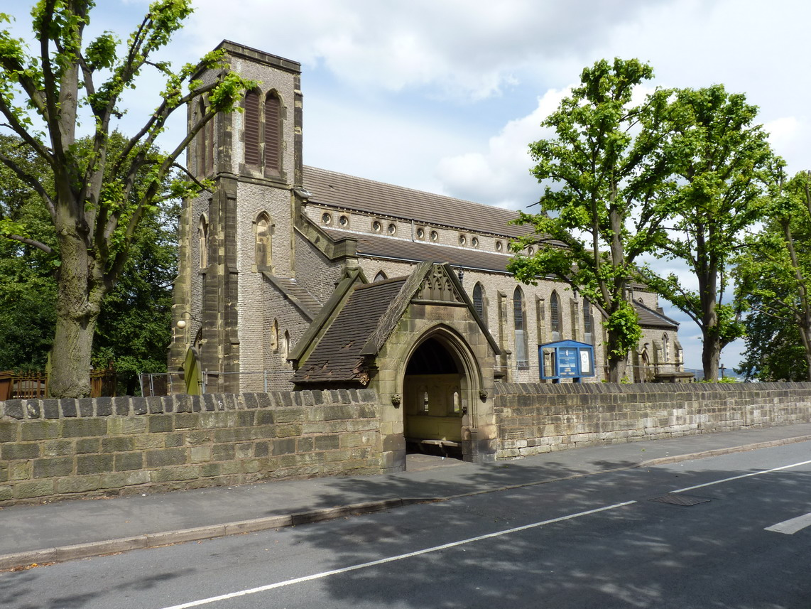 Parish church of St John the Evangelist, St John's Road, Kates Hill, Dudley, West Midlands, seen from the south